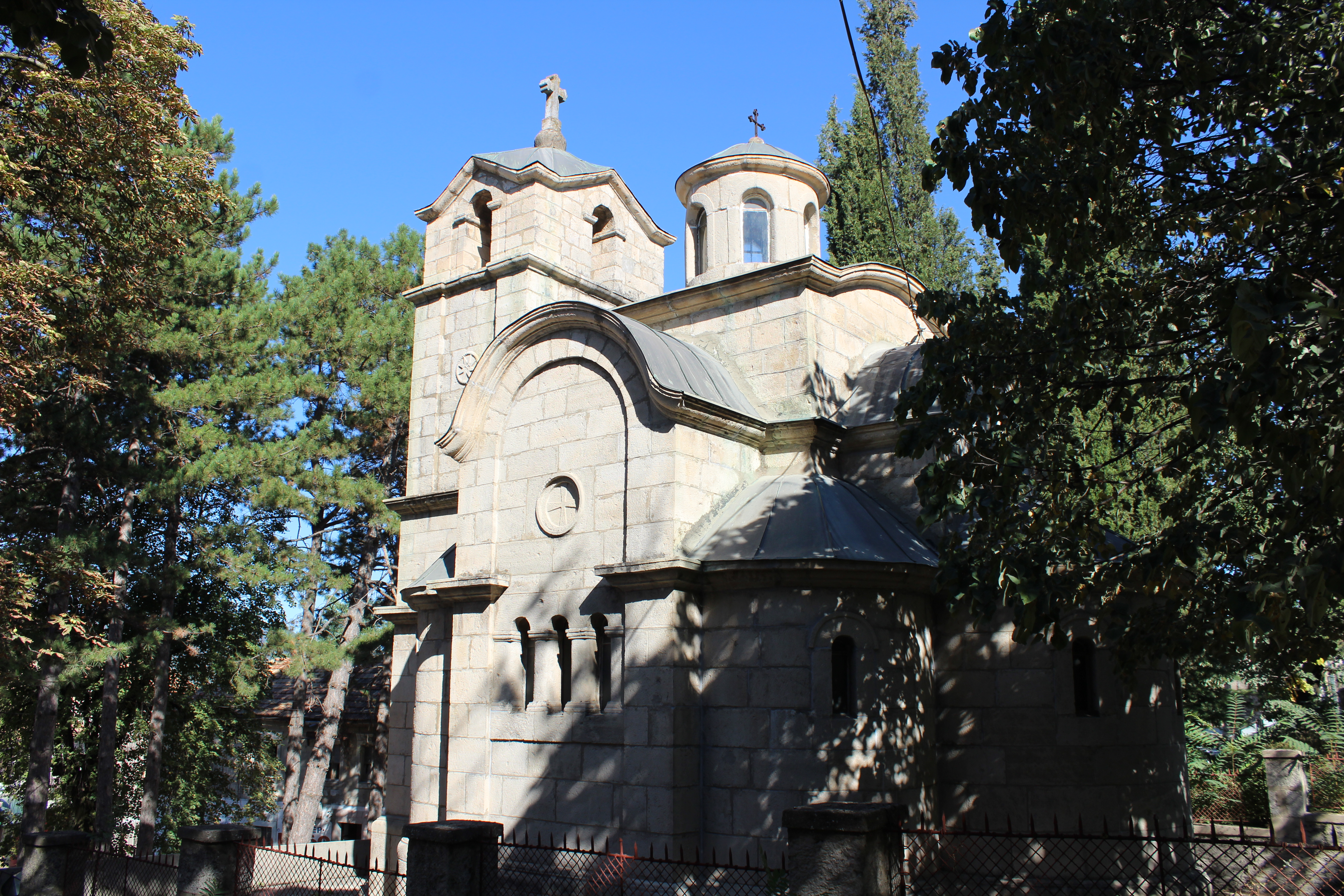 Vidovdanska crkva (Bileća). This image was uploaded as part of Trace of Soul 2019.